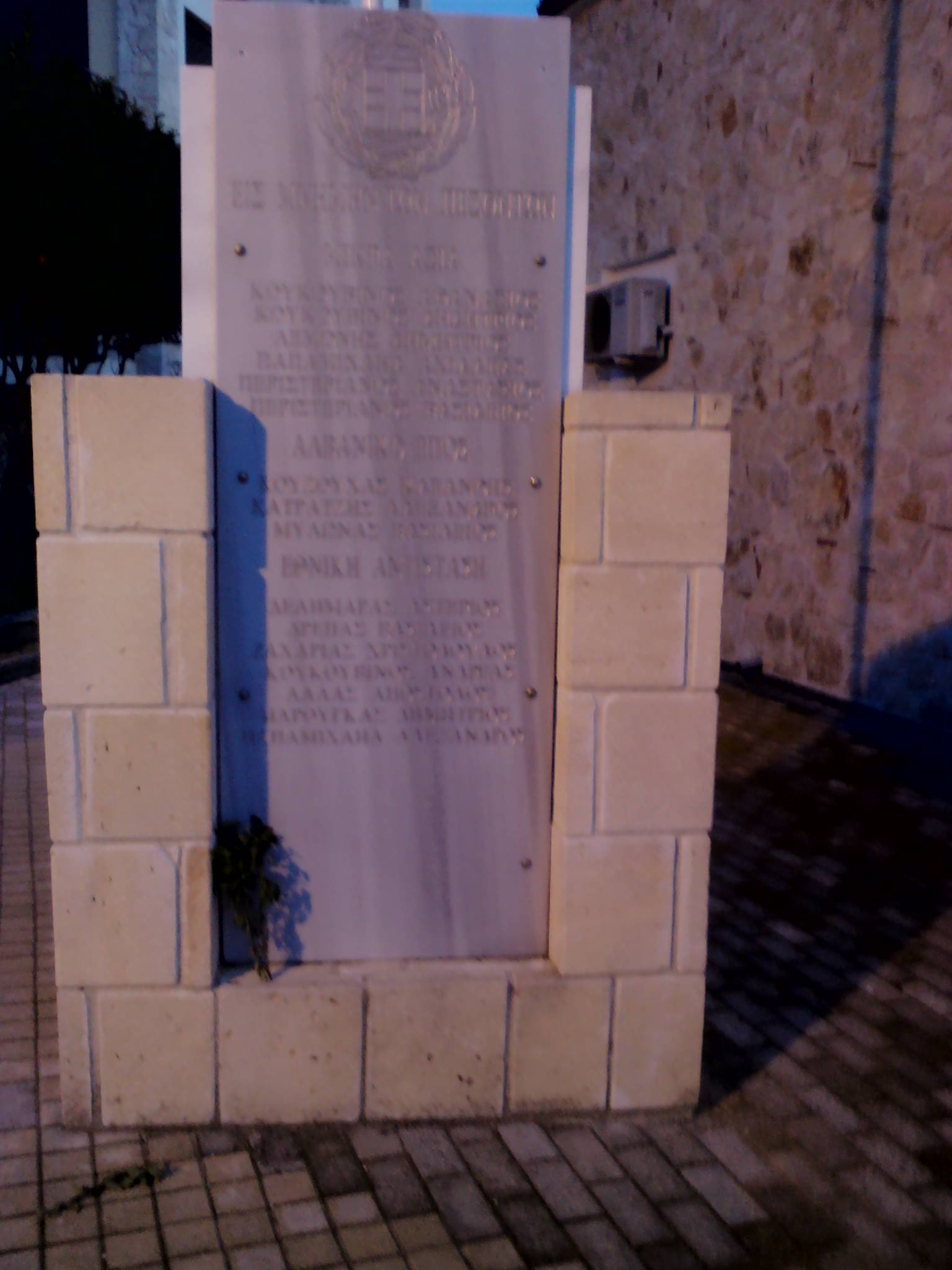 Monument of the fallen at the church of St. Nicholas Nea Skioni Halkidiki for the fallen of the following campaigns: 1) Asia Minor 2) Albanian front during World War 2 3)Resistance during World War 2